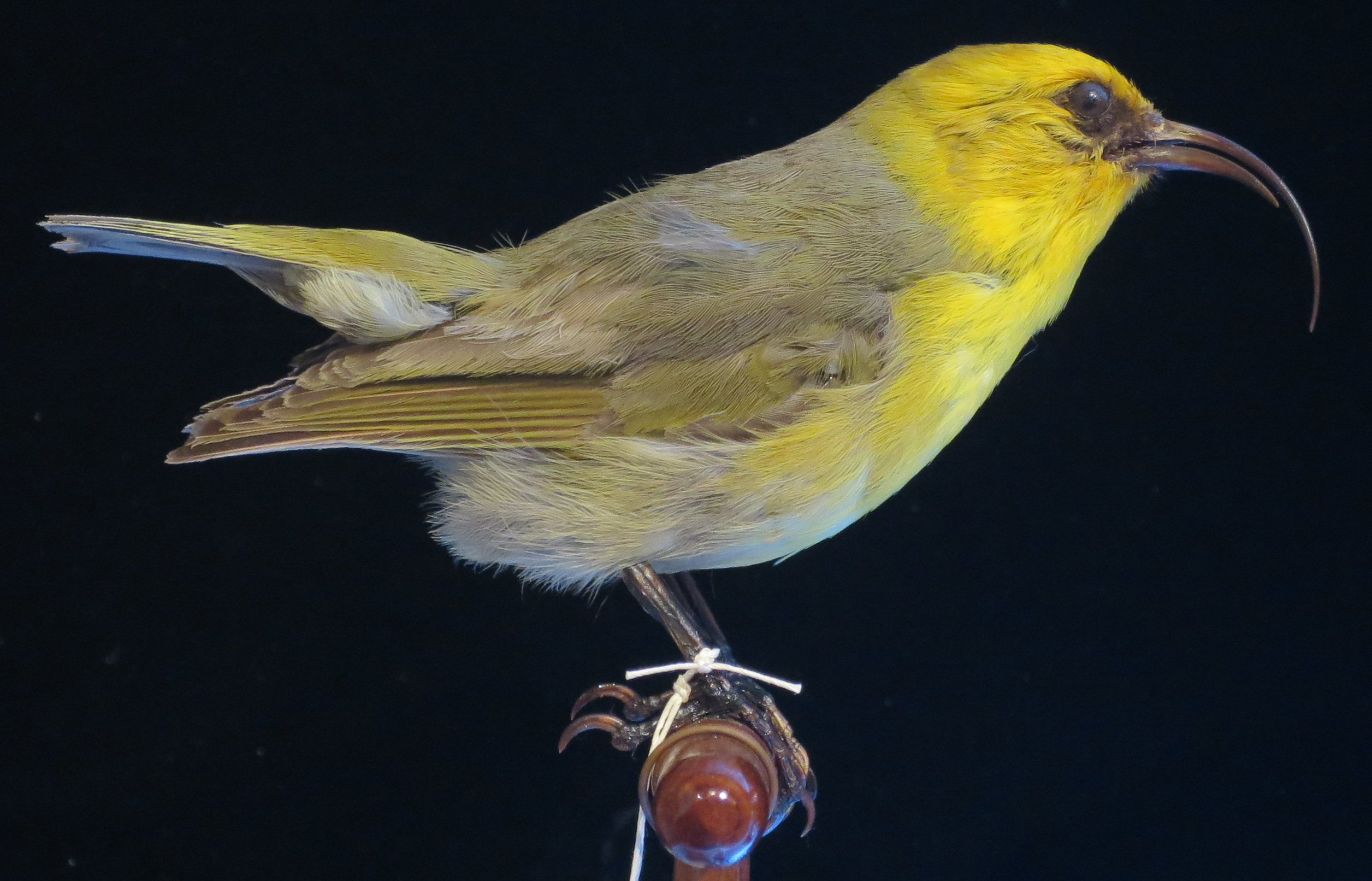 Heterorhynchus affinis Roths (male), Bishop Museum, Honolulu